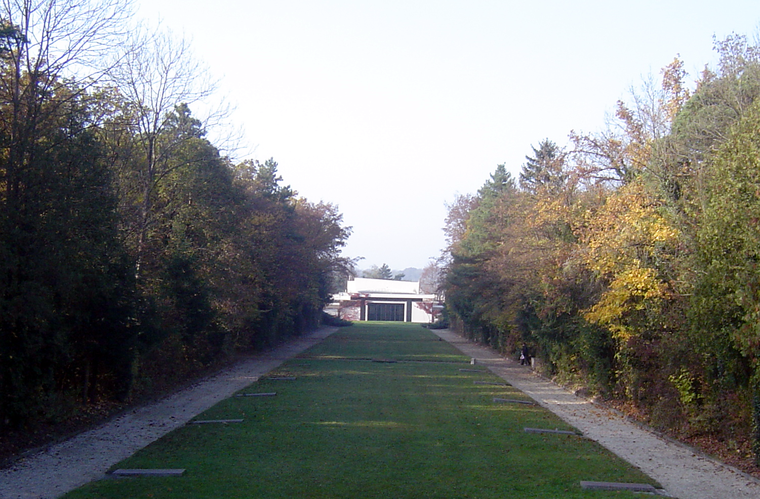 Cemetery Linz/St. Martin, in Traun, Upper Austria. View from War Memorial to Chapel